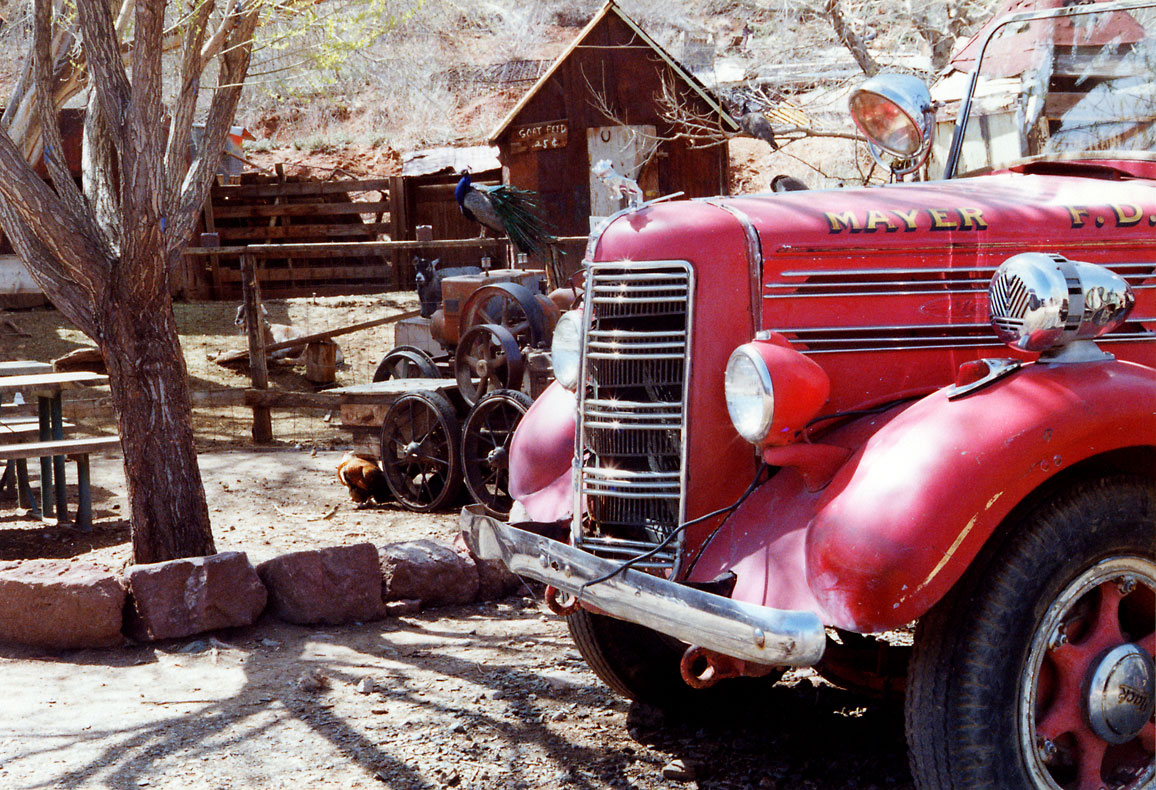 Abandonded Mack fire engine, Mayer F.D., at Jerome, Arizona.